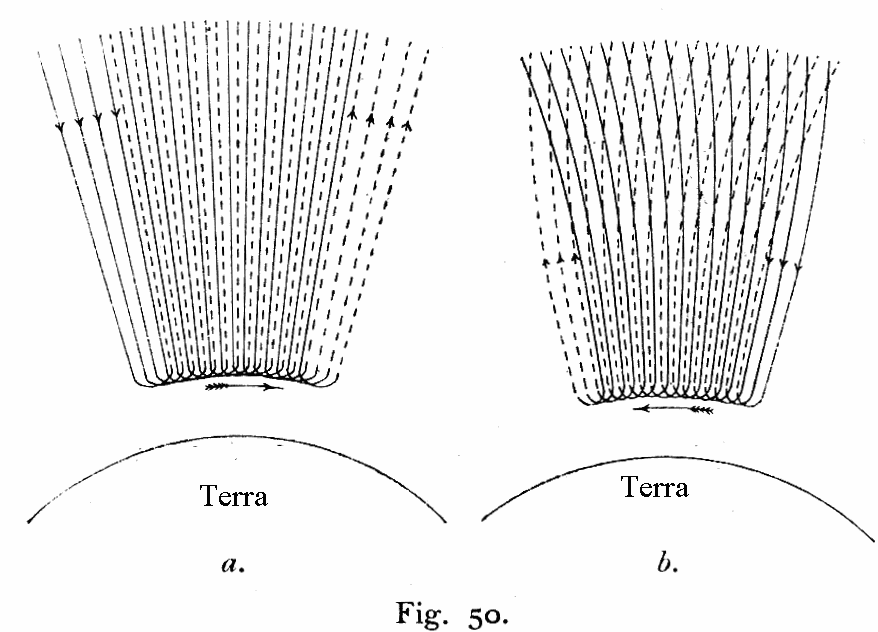 (Kristian Birkeland predicted auroral electrojets in 1908. He wrote: "[p.95 ..] the currents there are imagined as having come into existence mainly as a secondary effect of the electric corpuscles from the sun drawn in out of space, and thus far come unde)